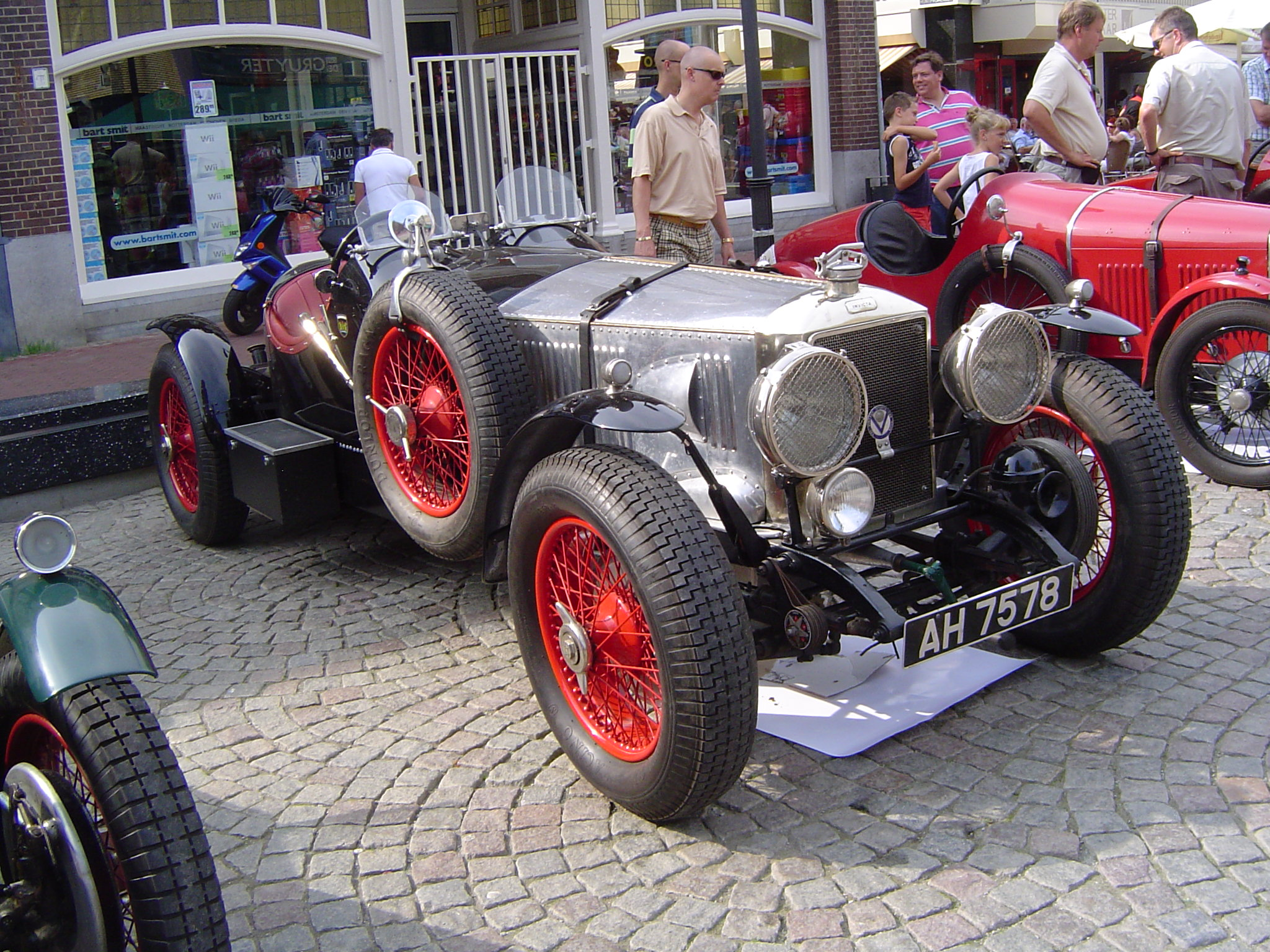 Vintage car: Invicta 3 Litre 1927 with special body